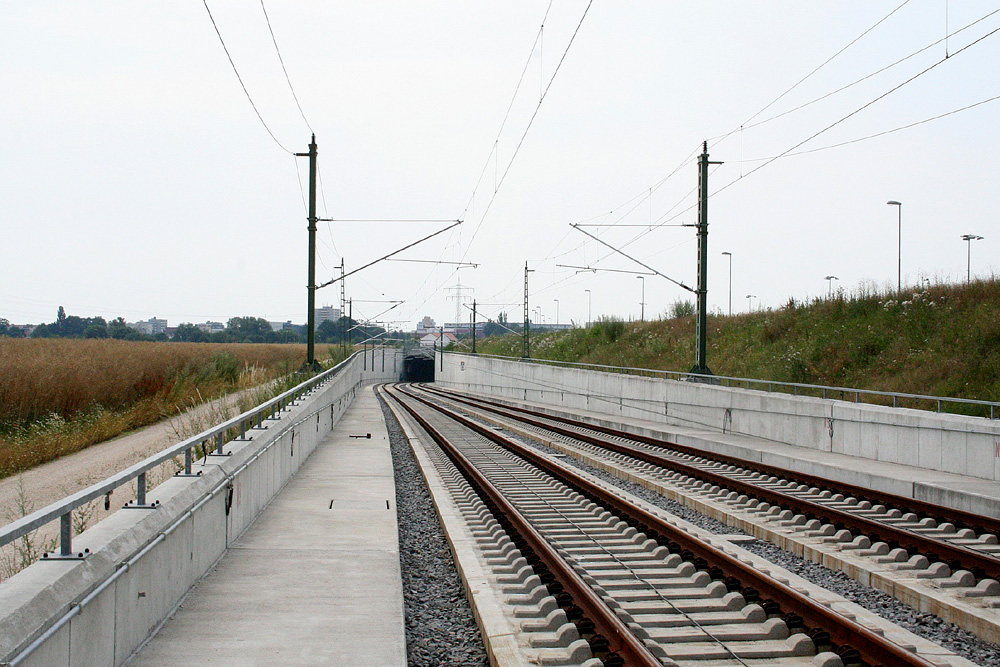 Ramp and north entrance to the Audi-tunnel at the Nuremberg–Munich high-speed railway line, near Ingolstadt. Note: This picture has been taken while the railway line was still under construction.